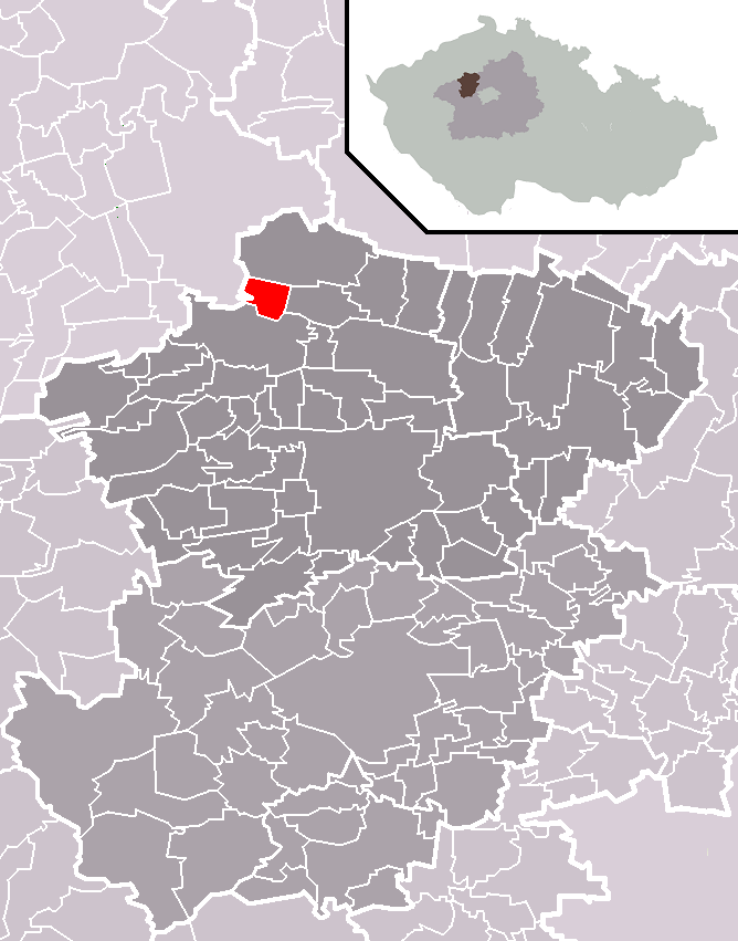 Location of Vrbičany municipality within Kladno District and administrative area of Slaný as a Municipality with Extended Competence.